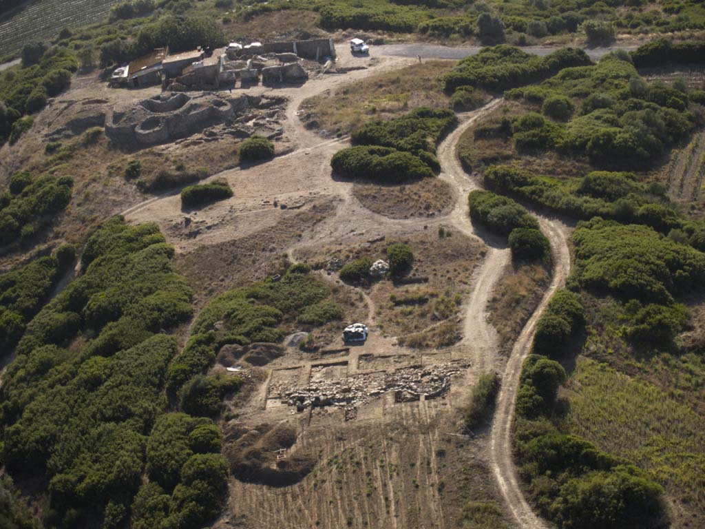 Aerial photograph of Castro of Zambujal